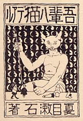 Detail of cover design for I Am a Cat (Natsume Soseki)